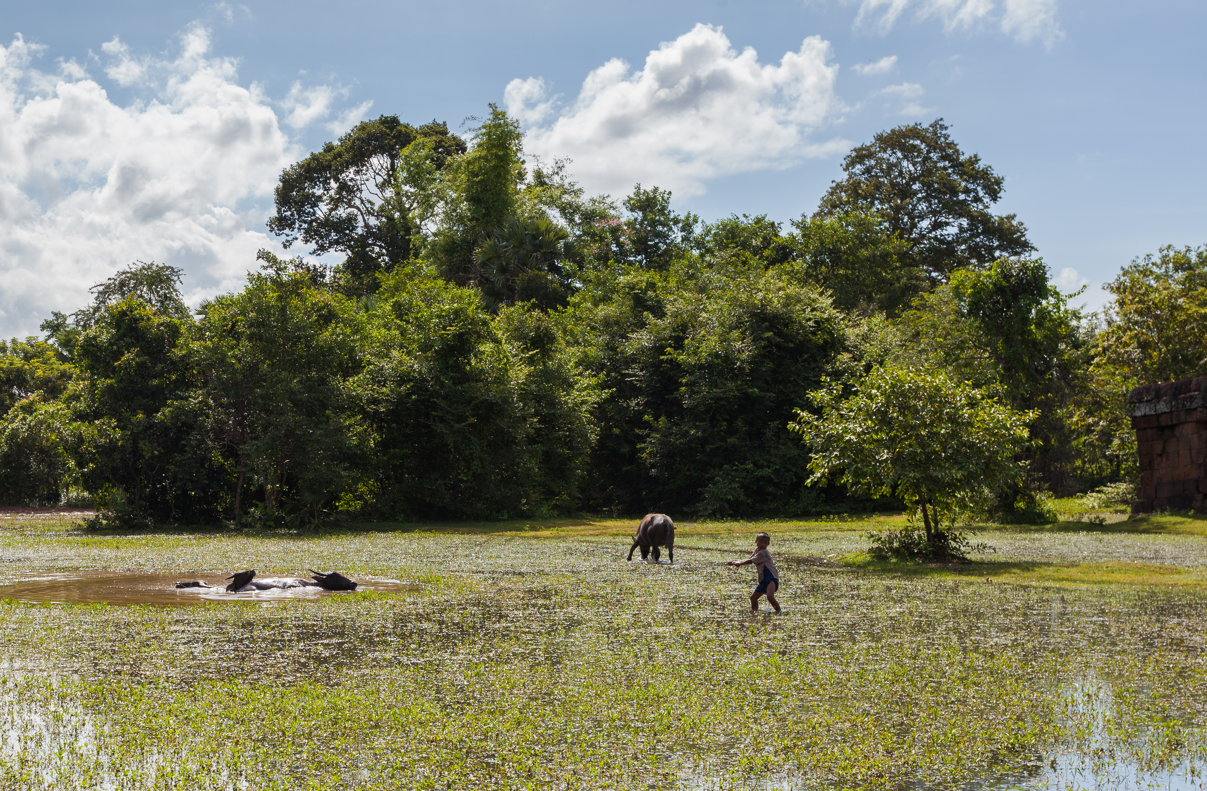 Buffaloes (Bubalus bubalis) at Pre Rup, Angkor, Cambodia